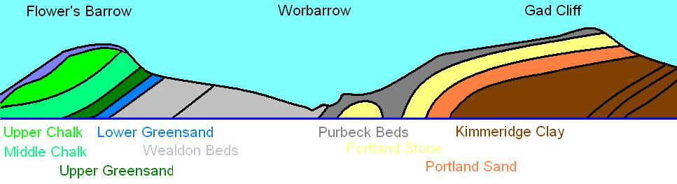 Geology of the coast line by Worbarrow